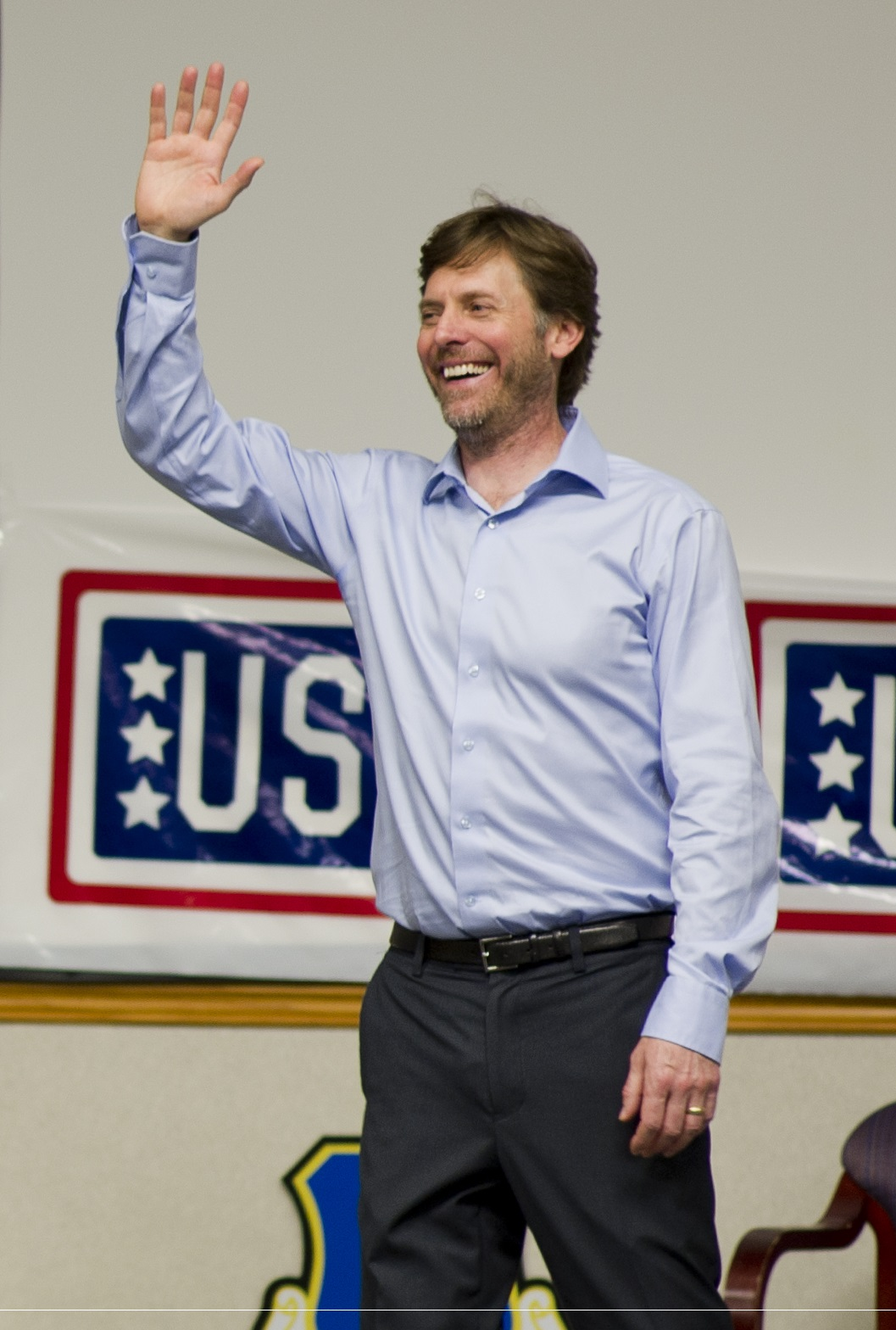 Erik Stolhanske, actor/writer from the movies “Super Troopers”, “The Slammin’ Salmon” and “Beerfest” and member of the comedy group Broken Lizard, speaks to Tyndall Airmen during a Game On Nation seminar Jan. 23 in the 337th Air Control Squadron auditorium. Game On Nation is a company dedicated to training groups in communication, leadership, teambuilding and media training through fun and interactive games that break down barriers and create a positive, comfortable environment.